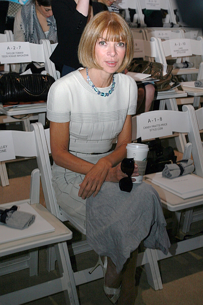 Anna Wintour front row at the Anne Klein fashion show